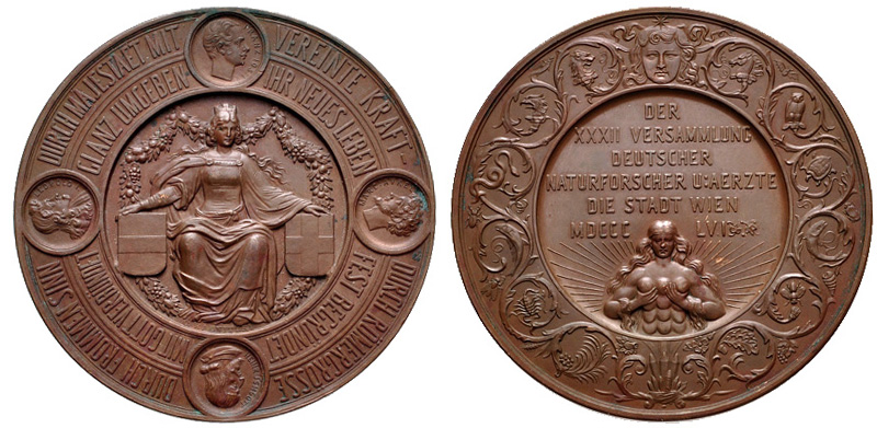 AUSTRIA, Empire. Franz Josef. 1848-1916. Æ Medal (69mm, 110.63 g, 12h). Commemorating the 32nd Assembly of German Natural Scientists and Physicians in Wien. By C. Radnitzky. Dated 1856 in Roman numerals. VEREINTE KRAFT-DURCH RÖMERGRÖSSE DURCH FROMMEN SINN DURCH MAJESAET MIT/IHR NEUES LEBEN FEST BEGRÜNDET MIT GOTT VERBÜNDET GLANZ UMGEBEN, civic deity seated facing on throne, resting hands upon two shields; garland around; in outer legend, four medallions with busts left of Marcus Aurelius and Heinrich II, and right of Leopold I and Franz Jozef / DER/XXXII VERSAMMLUNG/DEUTSCHER/NATURFORSCHER U : AERTZE/DIE STADT WIEN/MDCCC LV in six lines; half-length bust of many-breasted female below; around, floral scroll containing various images of fauna. Brettauer 2416. EF, brown surfaces.